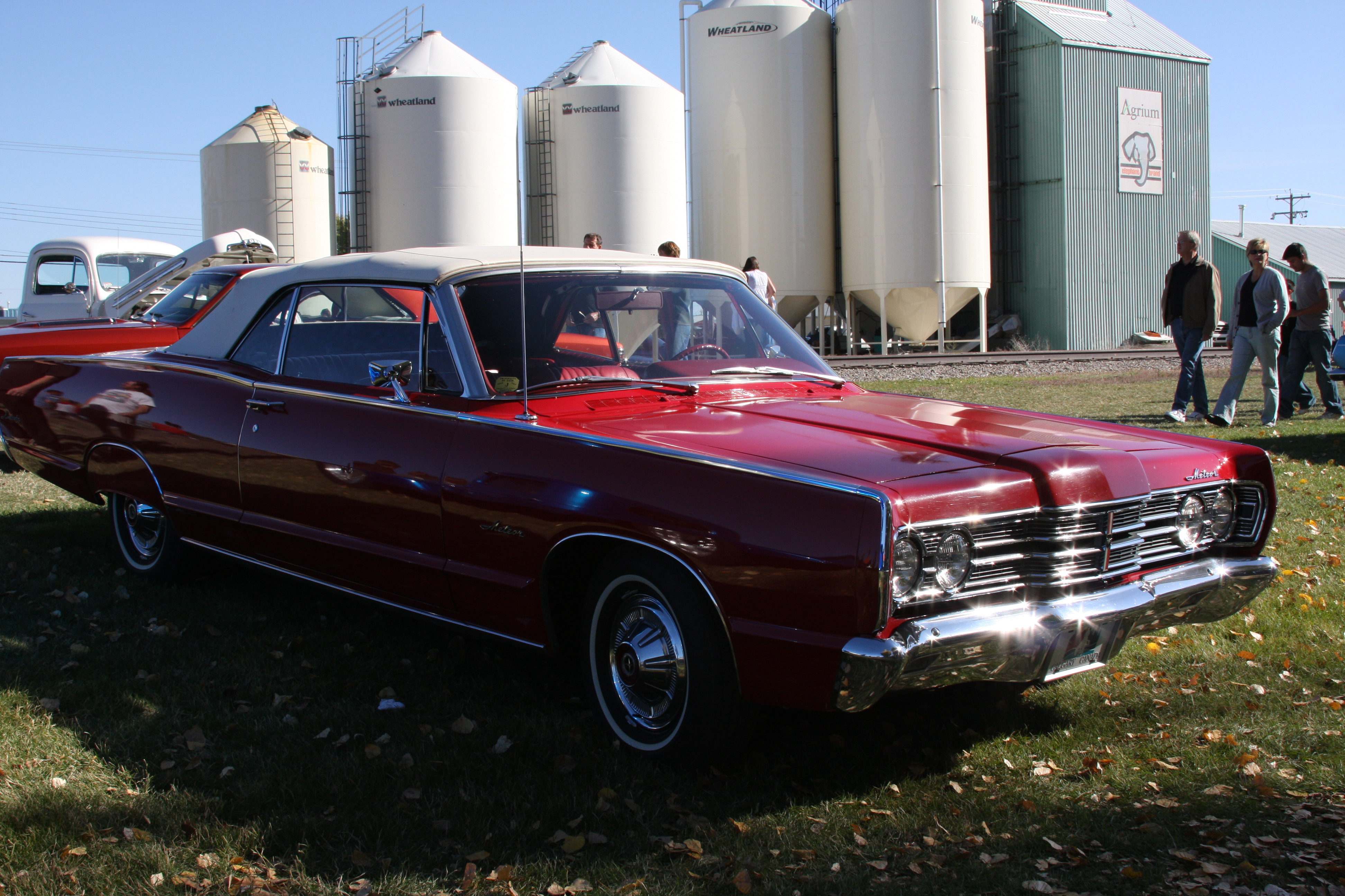 A Canadian 1967 Meteor Montcalm convertible.